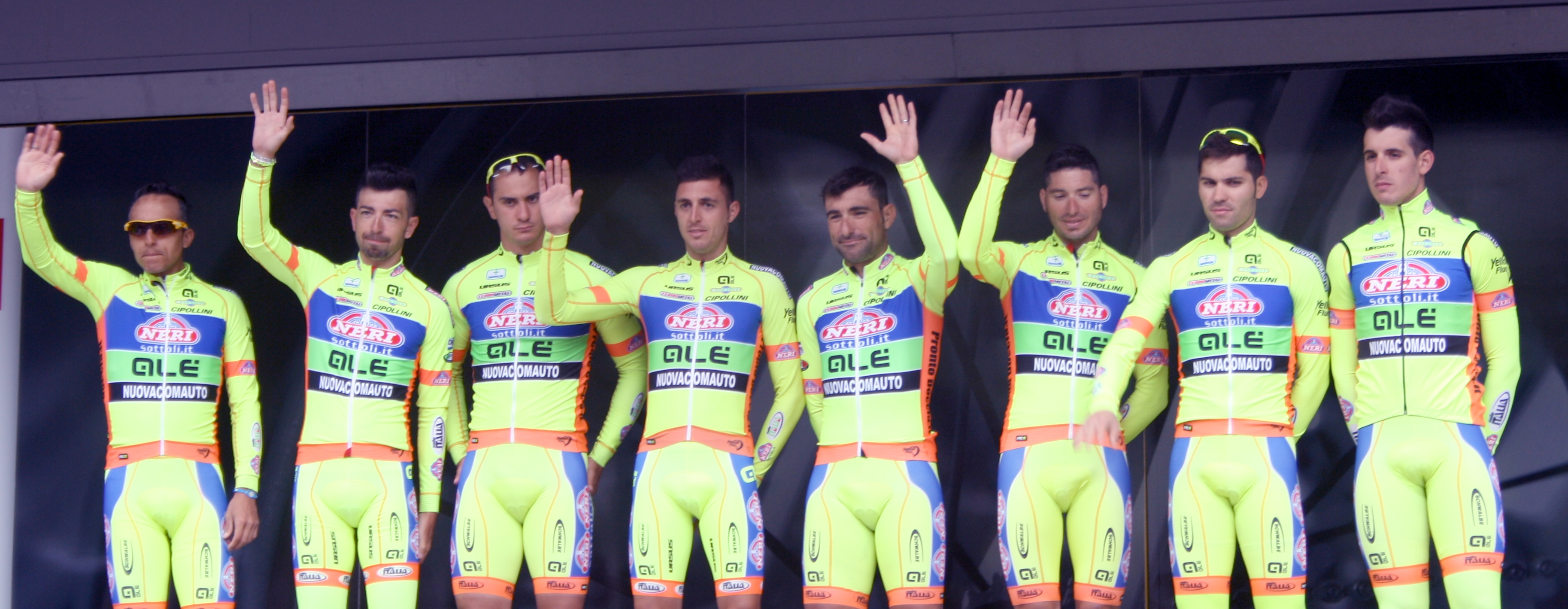 Neri Sottoli at the start of the World Ports Classic 2014 in Rotterdam